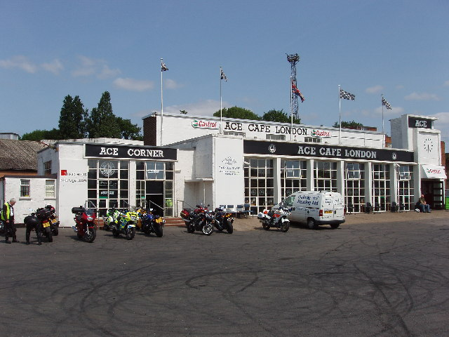 Ace Cafe, North Circular near Stonebridge. Famous since the 1960s as a meeting place for motor cyclists.